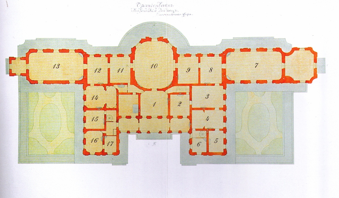 Plan of the ground floor of the Chinese palace in Oranienbaum, Russia